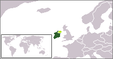 Location of the Irish Free State in Dark Green Claimed Territory of the Irish Free State in Light Green.